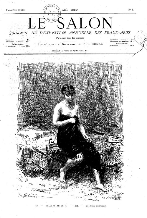 Front cover of Le Salon : journal de l'exposition annuelle des beaux-arts issue 2, Paris, May 1880 with a reproduction of La Séance interrompue, awarded oil on canvas by Jules-Frédéric Ballavoine.